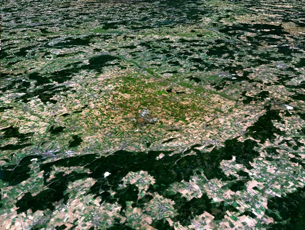 Nördlinger Ries, view from southwest. Within the Ries crater, the city of Nördlingen stands out.